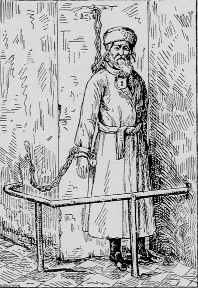 A 1909 imagined painting of a Jew bound in jougs by the Great Suburb Synagogue, Lvov.